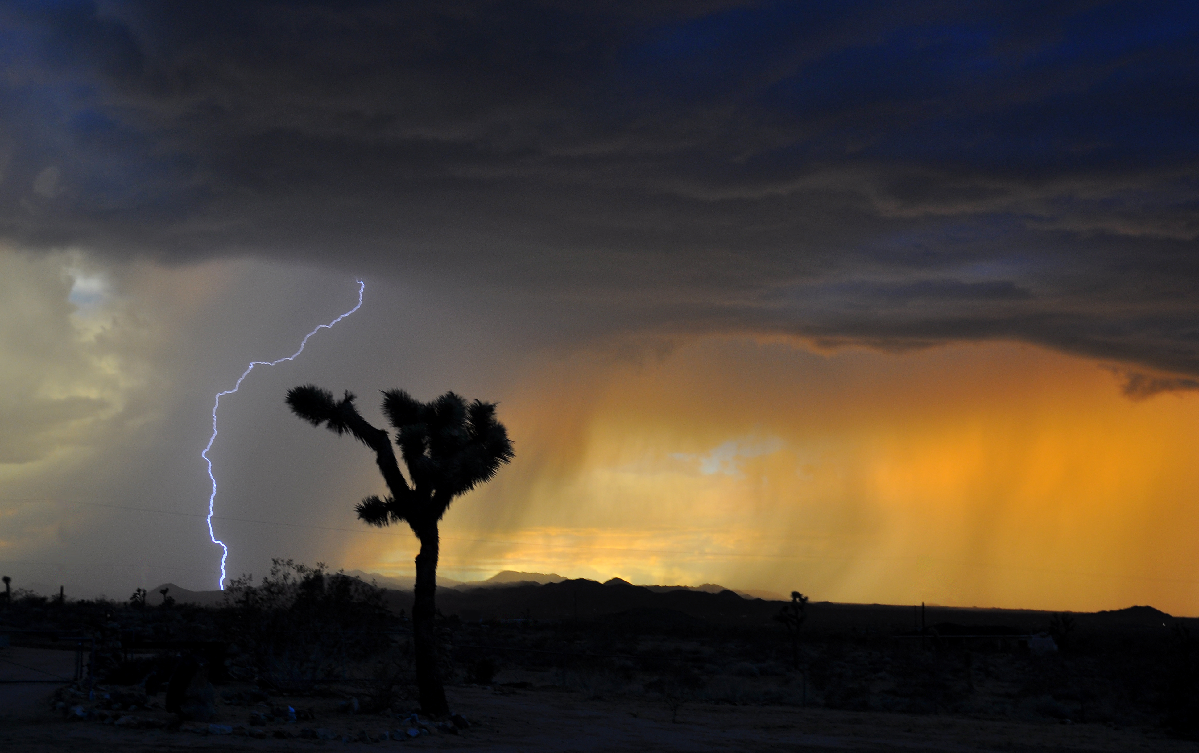 Violent electrical storm at sunset, attacks the California Mojave Desert